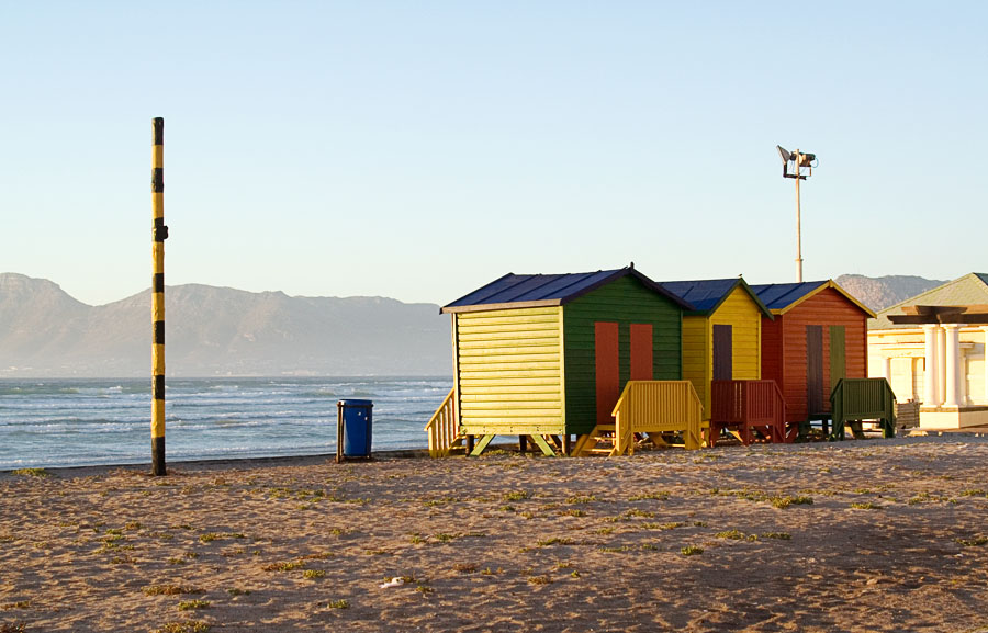 Changing huts on the beach at Muizenberg, Cape Town, South Africa. Variations of this picture have become a cliche in depicting the seaside suburb. This picture was taken by me, Don Bayley, and is donated to the public domain.